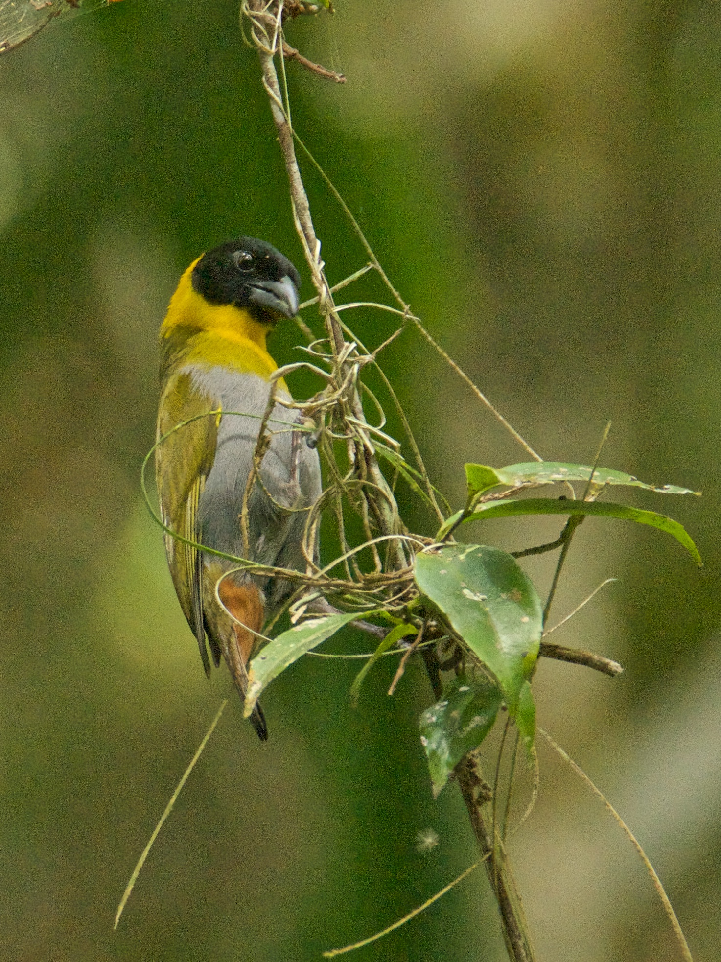 Nelicourvi weaver, Ploceus nelicourvi, photographed October 2016 in the Analamazaotra Special Reserve, by Brian Ralphs